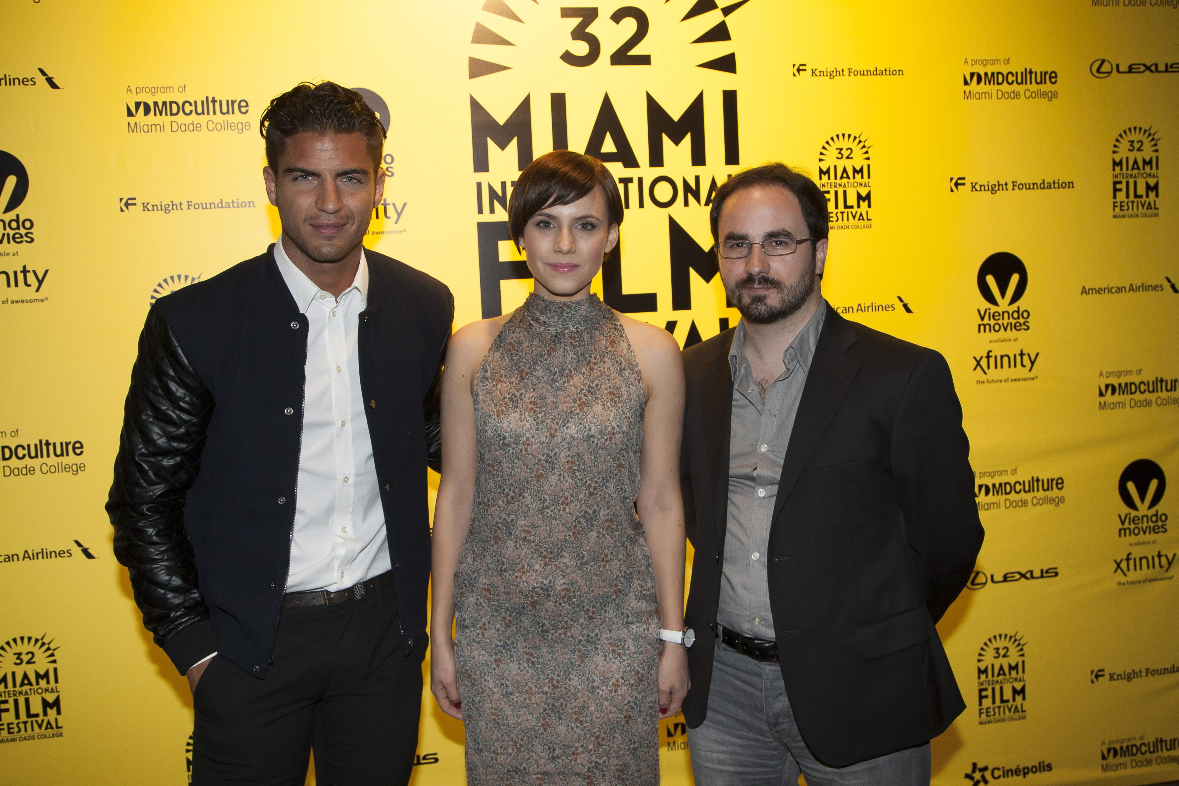 Actor Maxi Iglesias (left), actress Aura Garrido and director Gonzalo Bendala at the Miami Film Festival presentation of "Innocent Killers" at Tower Theater Mar 10, 2015